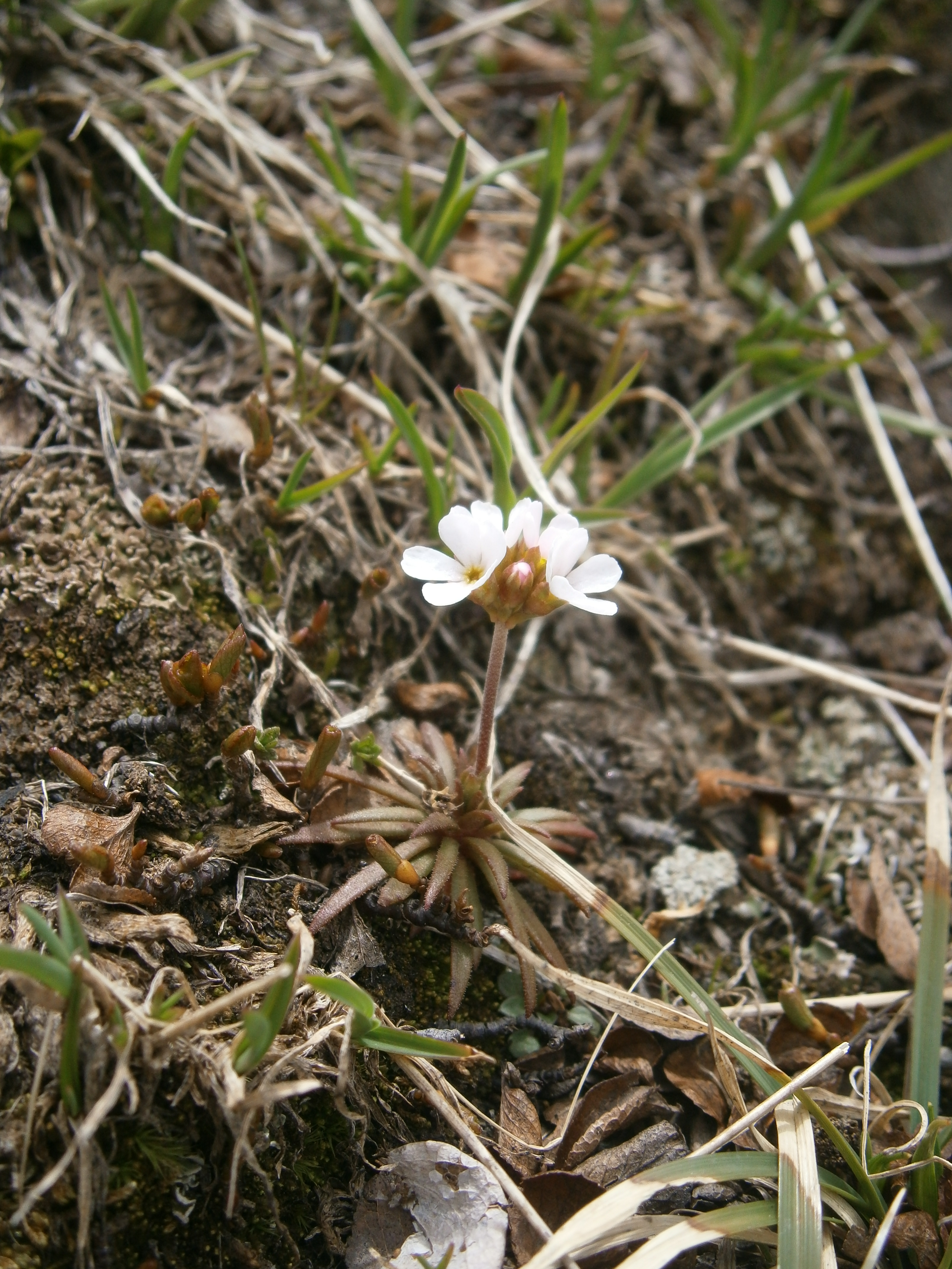 Androsace carnea var. brigantiaca